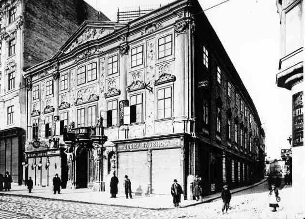 Former, non existing Mittrovských palace in Brno, Moravia, Czech Republic